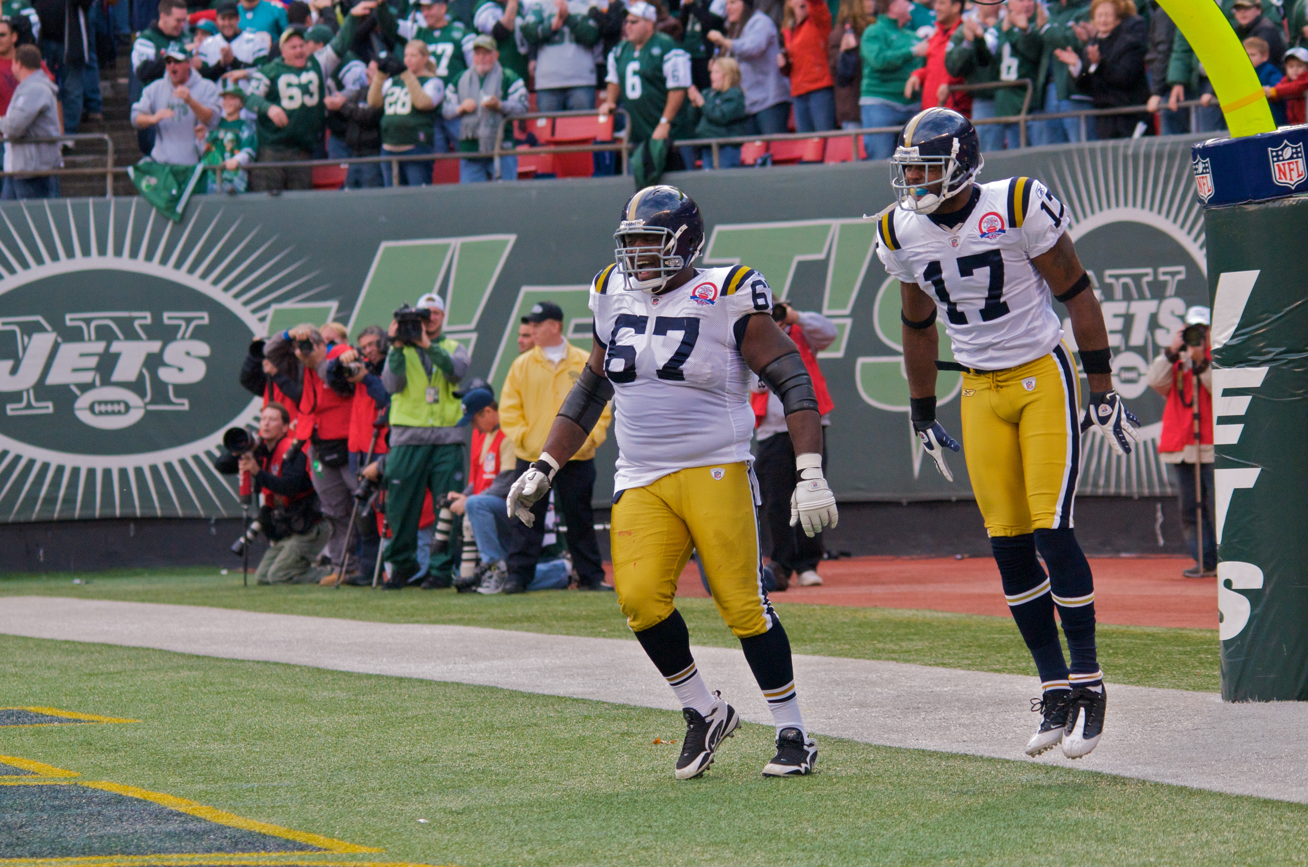 Damine Woody (67) and Braylon Edwards of the New York Jets.